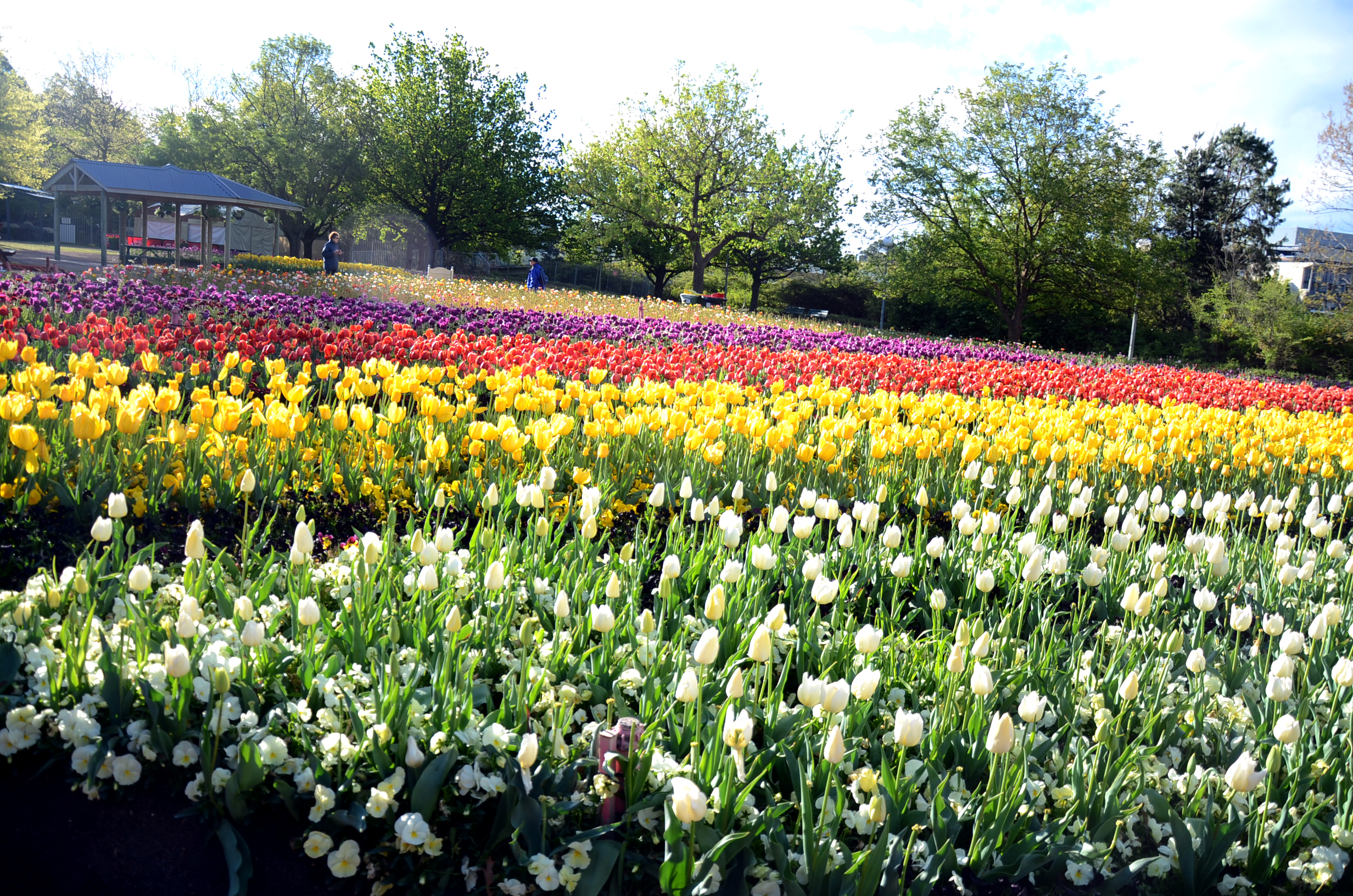 The photo is of the Floriade flower festival held in Canberra in 2013.